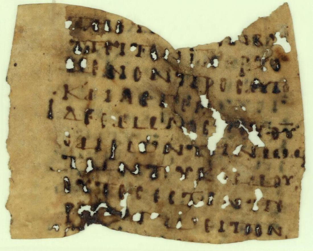 site recto with text of John 1:29-30